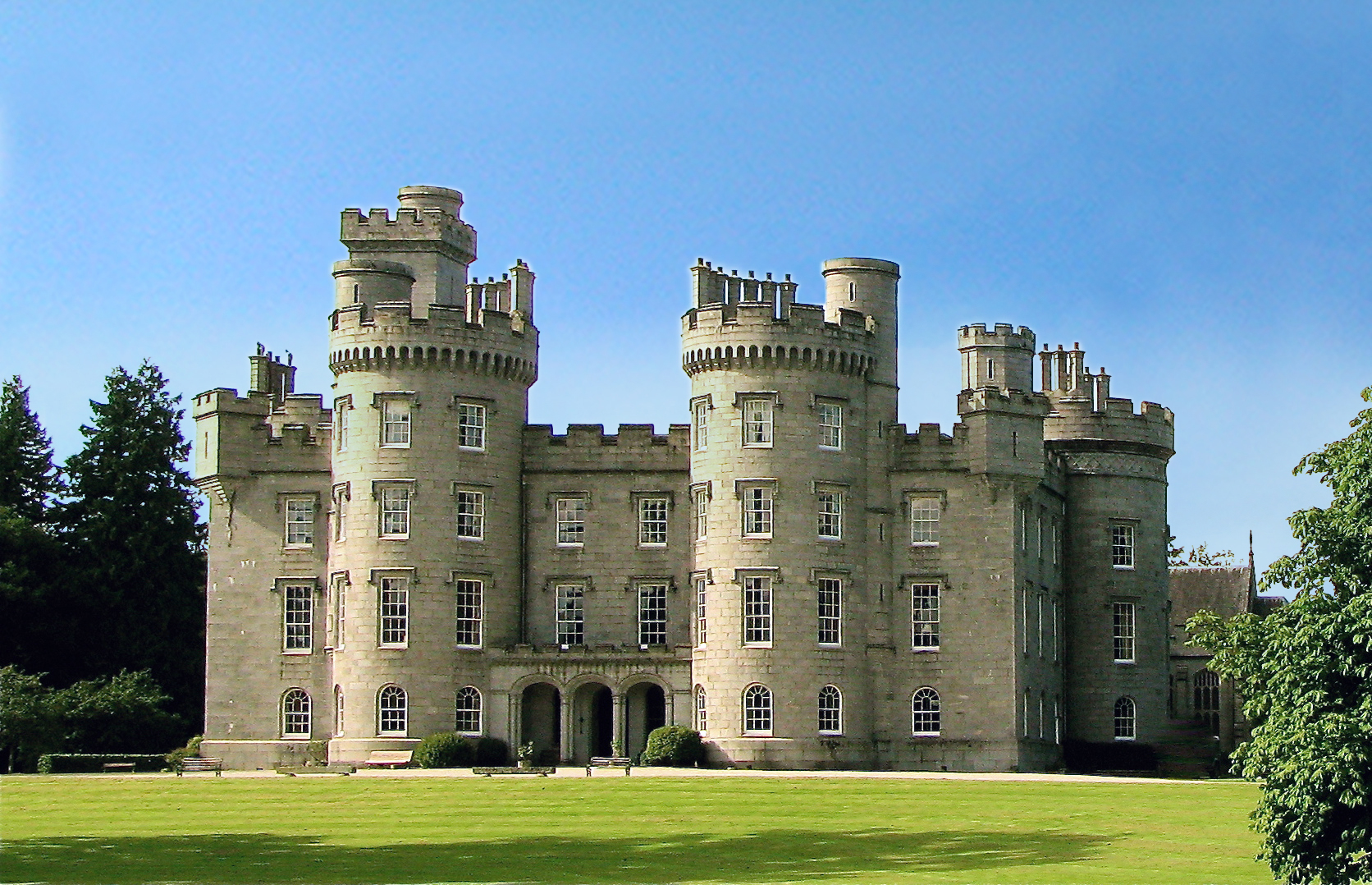 Photo of Cluny Castle used by Conde Nast